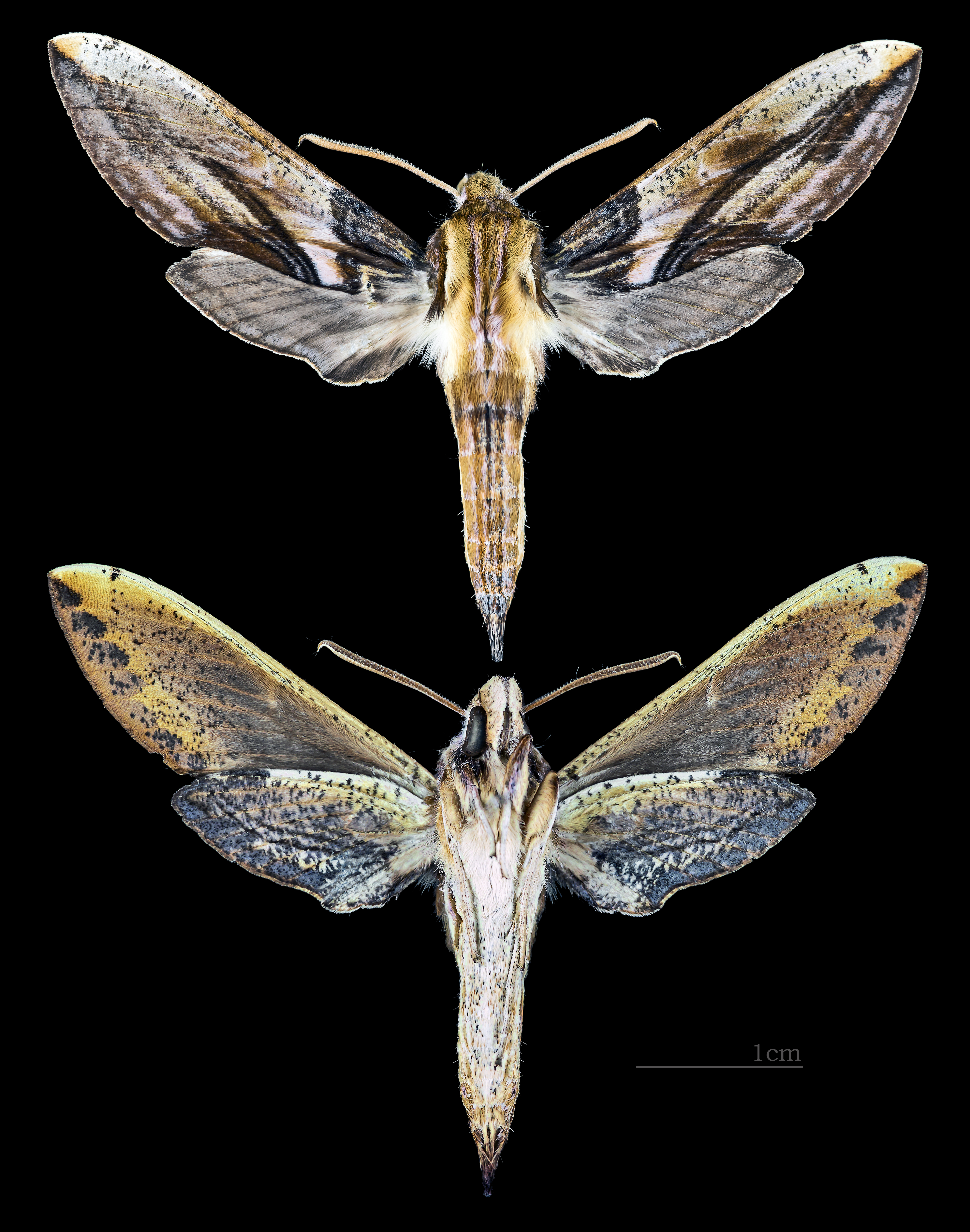 Xylophanes jordani - Two views of same specimen